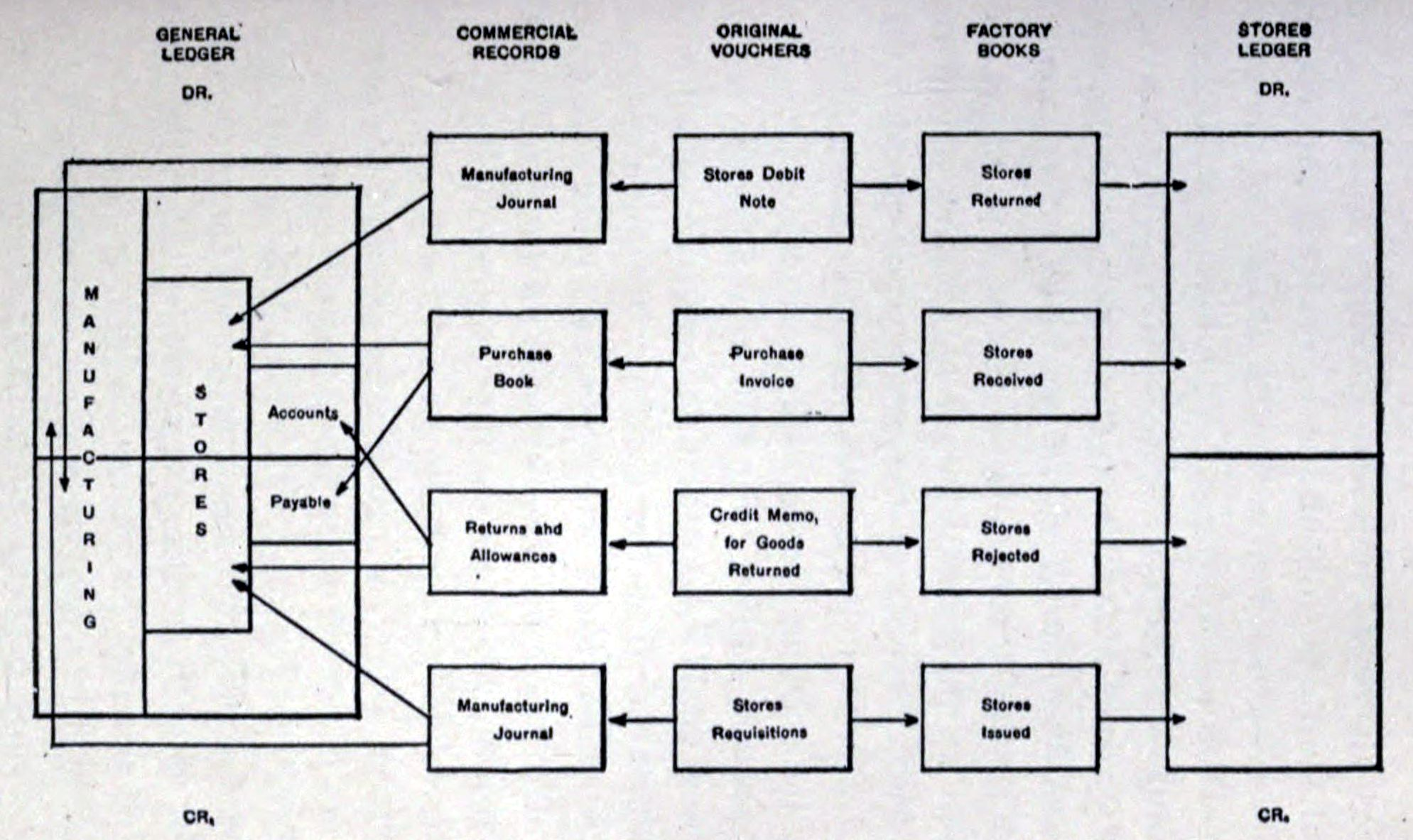 Relation of Stores Records to Commercial Records, 1919